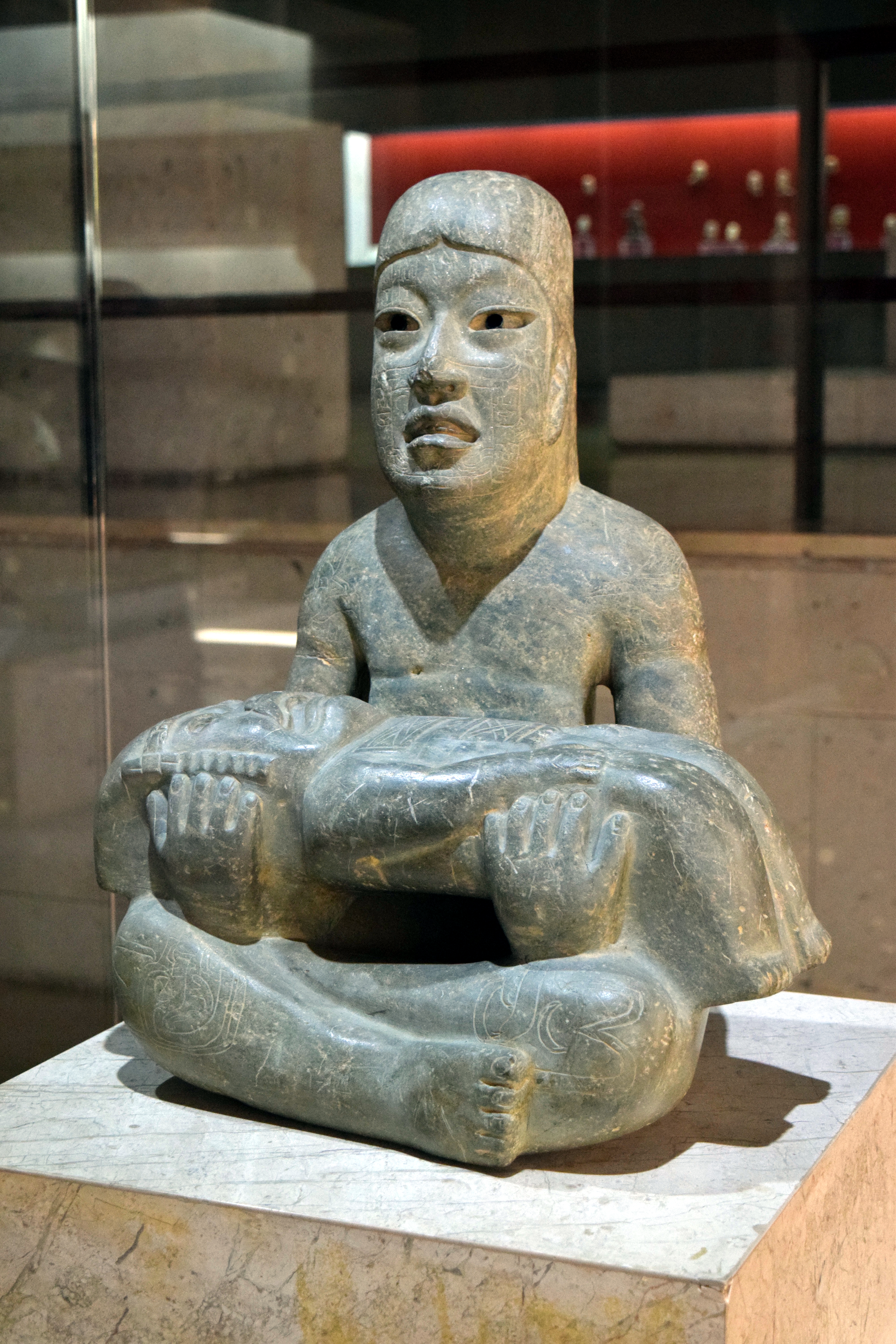 The name is based in where it was found. Las Limas Veracruz, and is one of the most important works of the Olmec culture, since it is unique in its type. It is a sculpture carved in green stone. This piece is in the Museum of Anthropology of Xalapa, Veracruz.